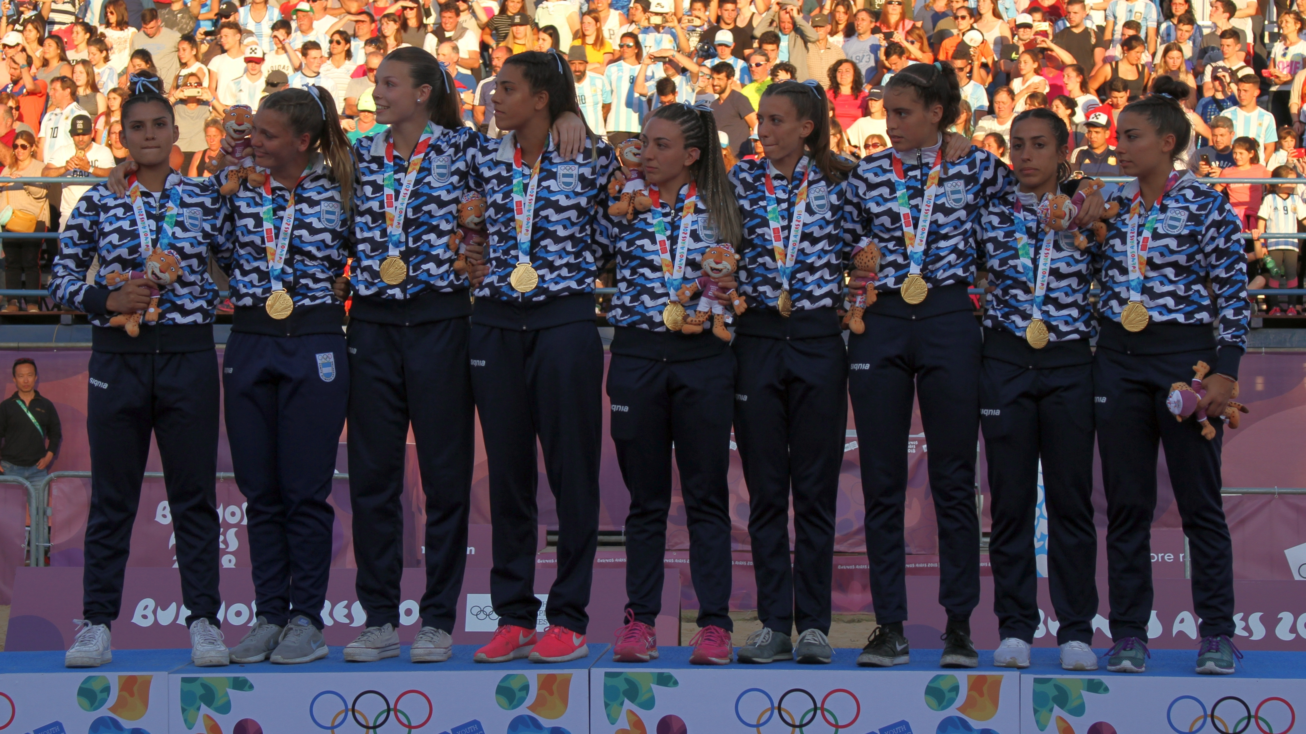 Beach handball at the 2018 Summer Youth Olympics in Buenos Aires at 13 October 2018 – Medal Ceremony Girls - Gold: Argentina, Silver: Croatia, Bronze: Hungary